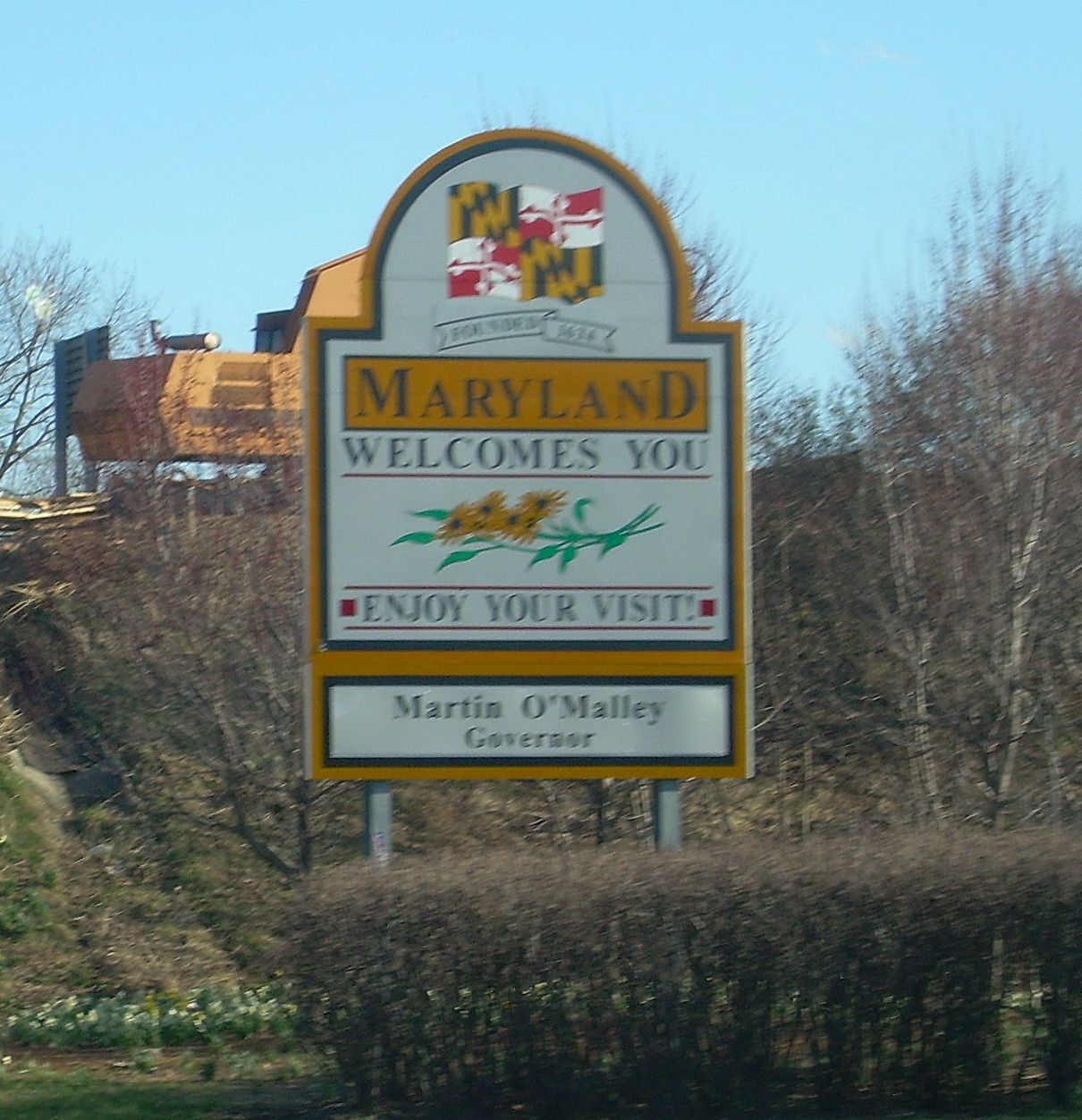 Maryland state welcome sign, along Interstate 81, entering from West Virginia.